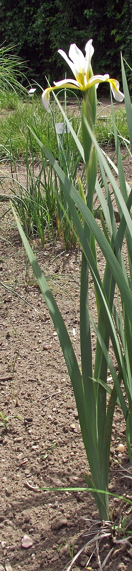 Iris spuria subsp. carthaliniae, Iris spuria is a species of the genus Iris, part of a subgenus series known as Limniris.